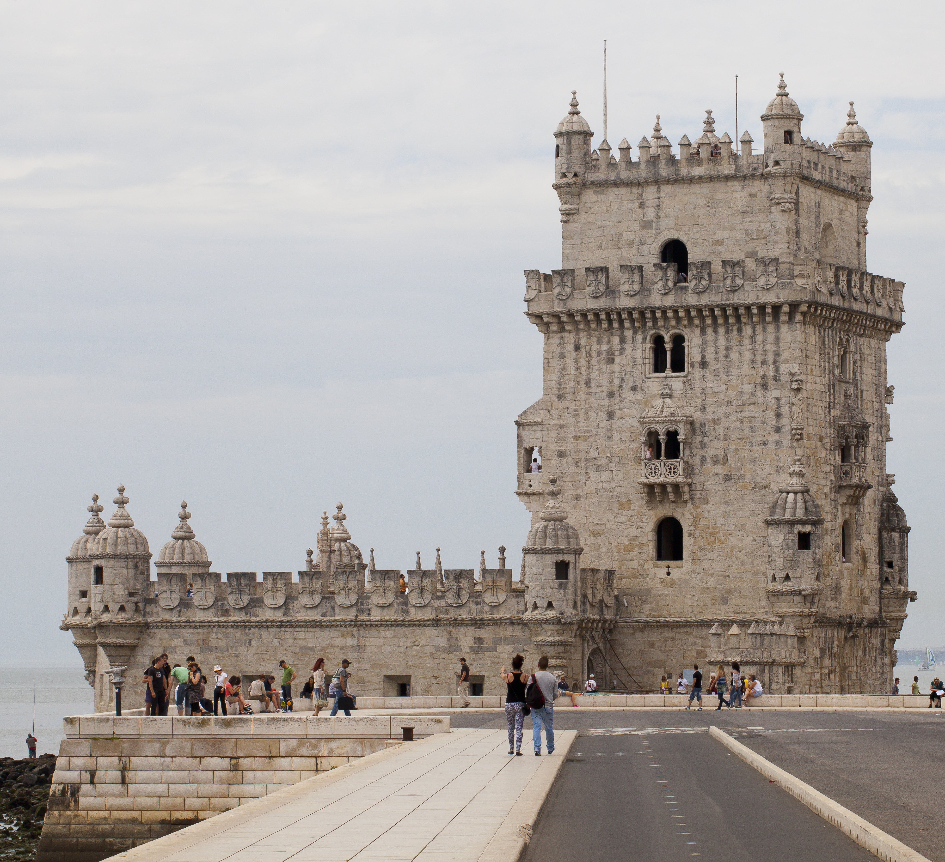 Belém Tower, Lisbon, Portugal